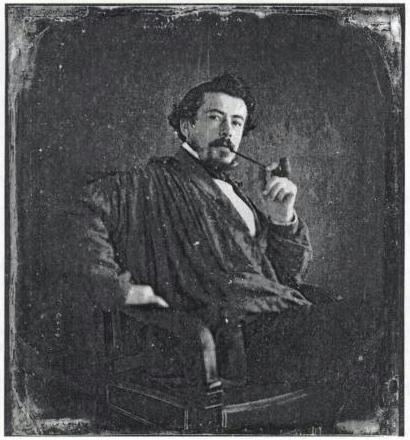 Scan of a picture of French optician Louis Jules Duboscq